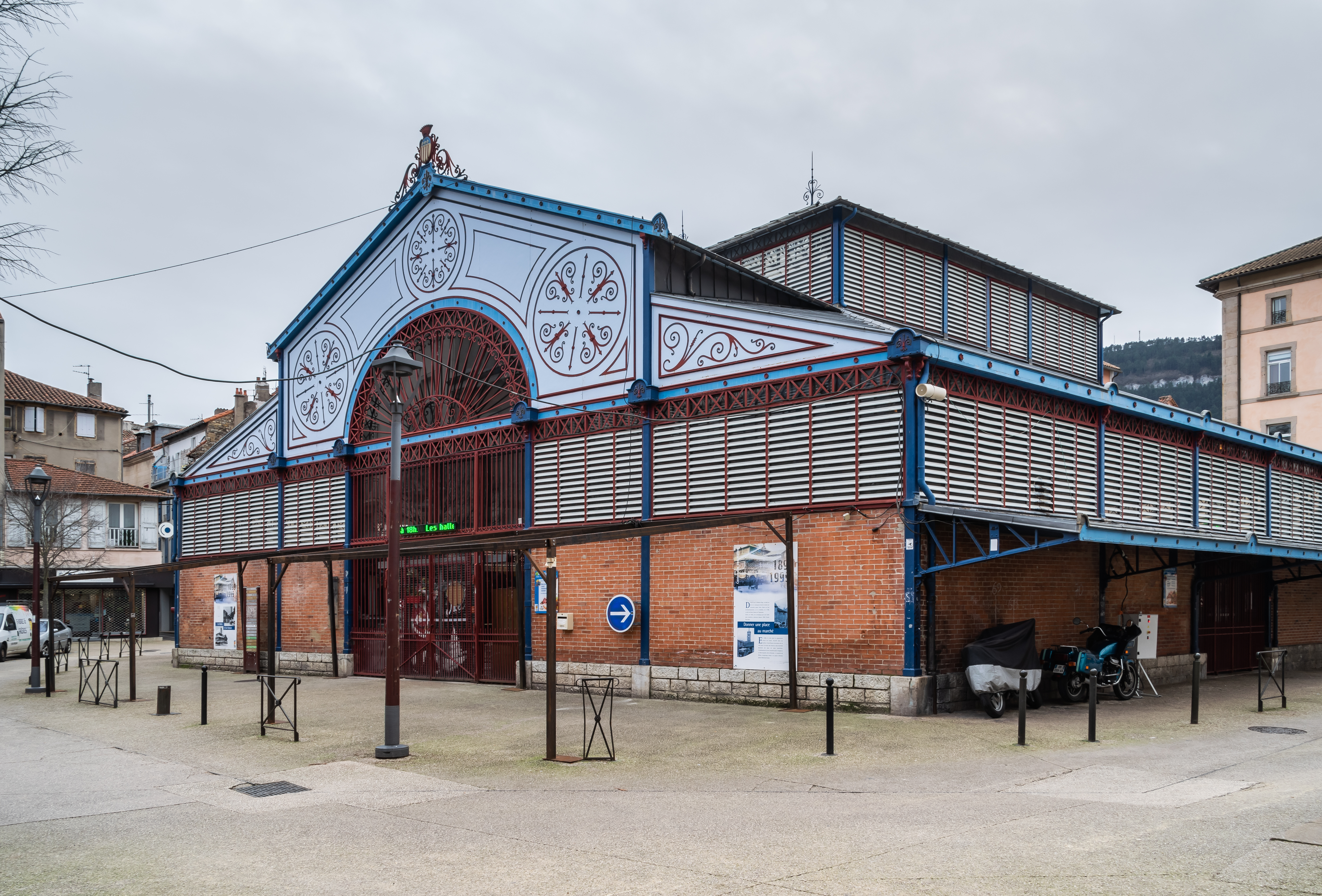 Market hall in Millau, Aveyron, France It is indexed in the Base Mérimée, a database of architectural heritage maintained by the French Ministry of Culture, under the references PA00094061 and IA12101216 .